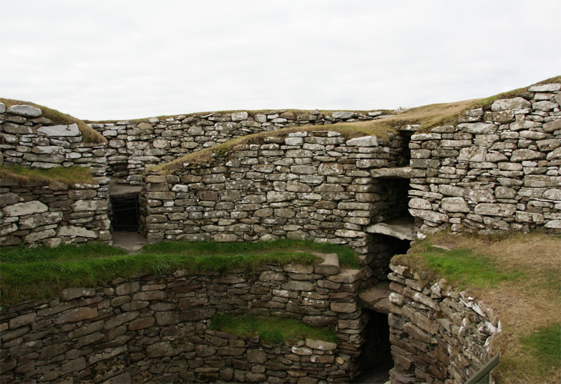 Clickimin Broch, Lerwick, Shetland, Scotland - interior